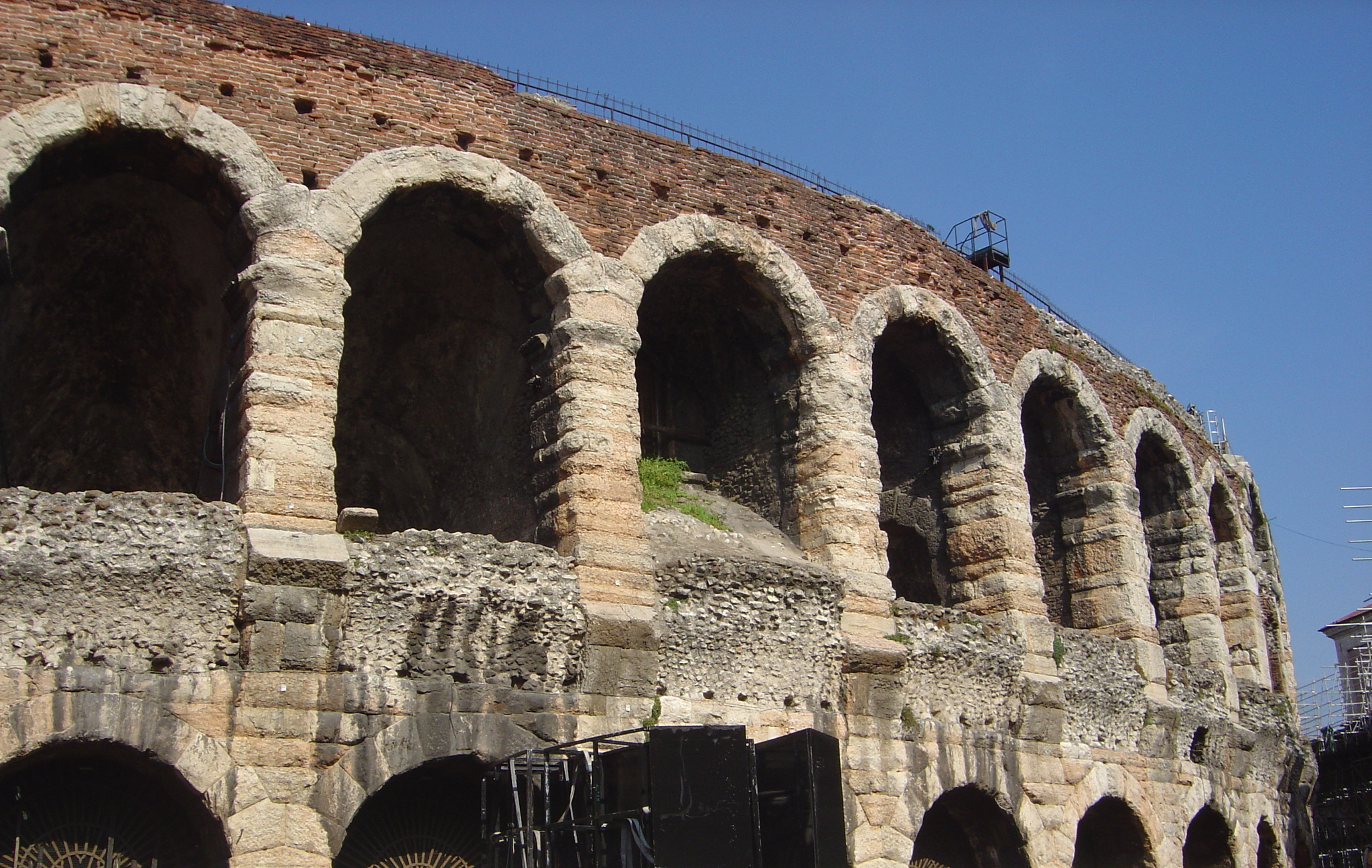 arena, Verona, Italy